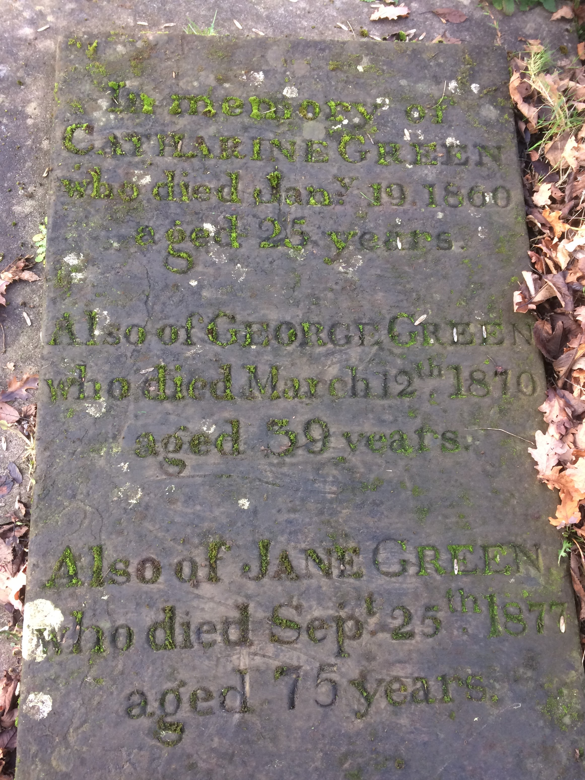 The grave stone of George Green and Sarah Green parents of George Green Professor of Mathematics, and Green's Theorem, at Caius College Cambridge in the cemetery of St Stephen's Church, Sneinton, Nottingham.